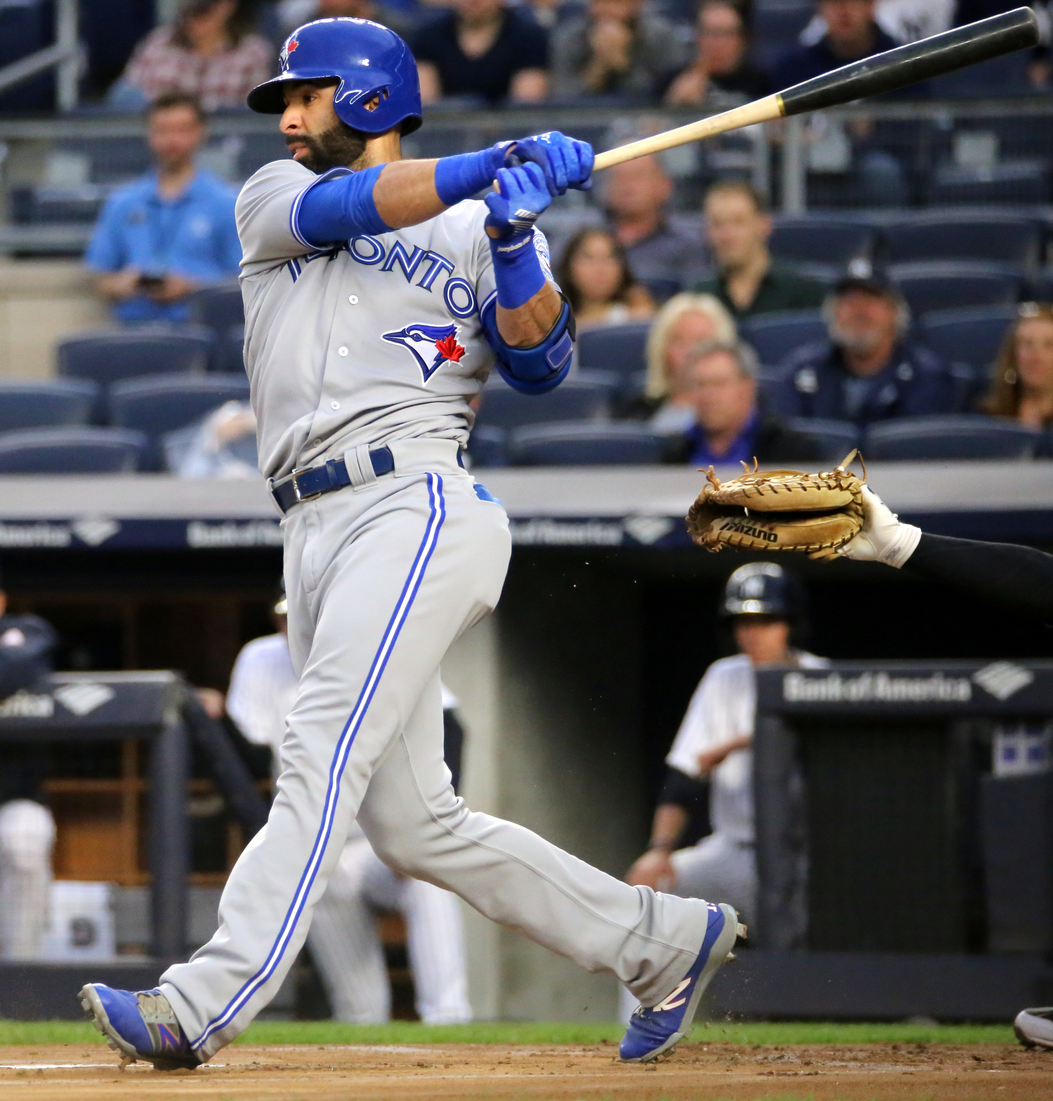 José Bautista on May 24, 2016